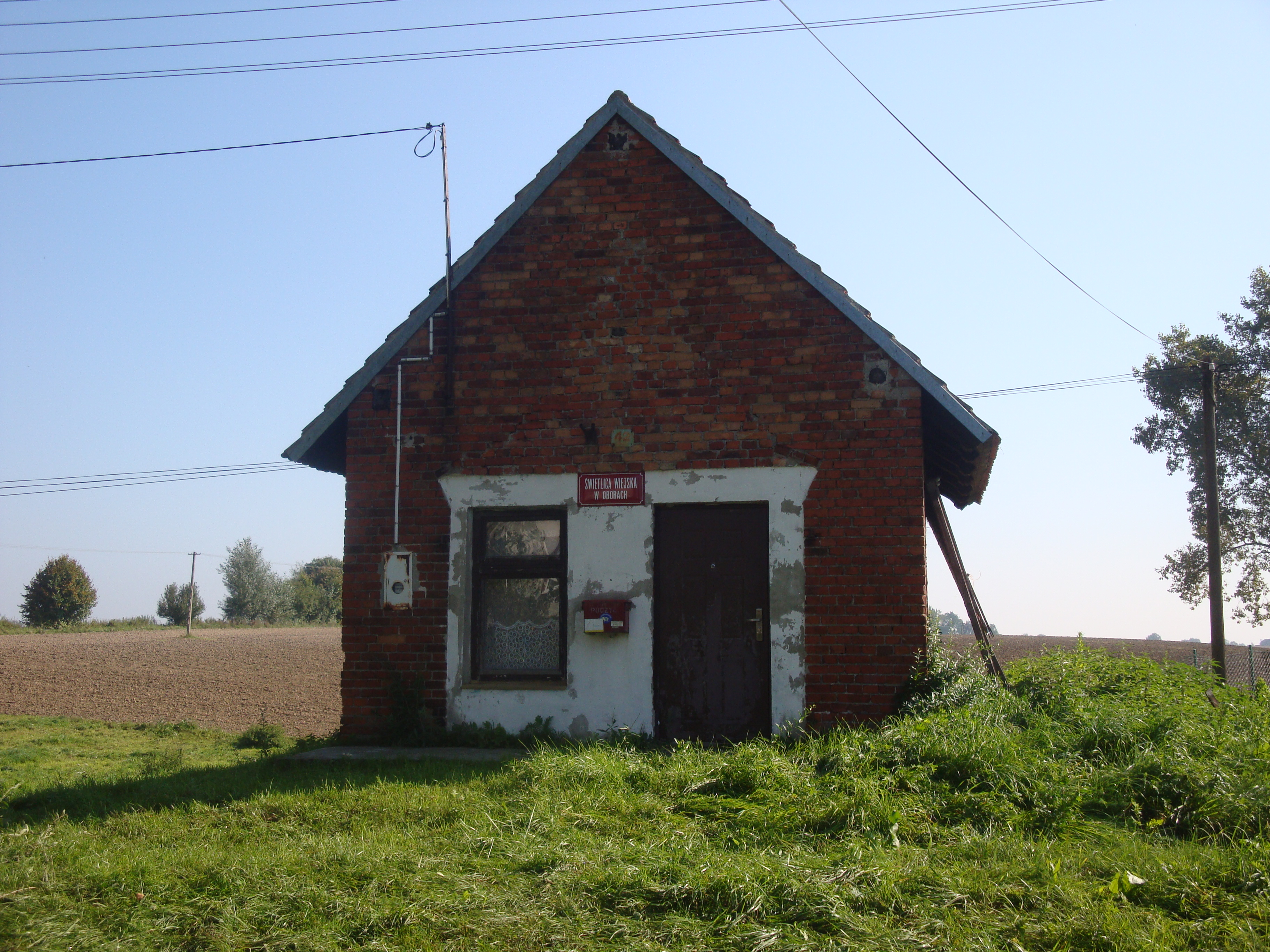 Obory-village in Kuyavian-Pomeranian Voivodeship, Poland